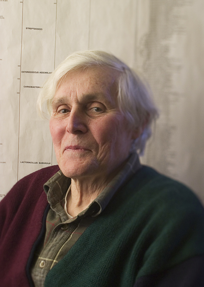 Carl R. Woese (1928-2012), professor of microbiology and a faculty member of the Institute for Genomic Biology at the University of Illinois at Urbana-Champaign. The portrait was taken by Don Hamerman ([1]). The photo was taken in 2004 at the University of Illinois.